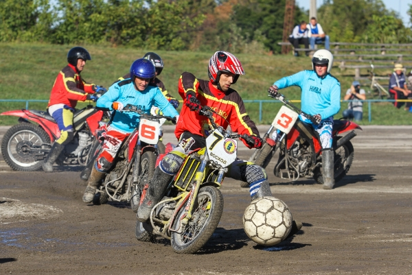 Instant match of championship of Ukraine motoball (Ukraine, s.Machuhy, Poltava region, 2016)